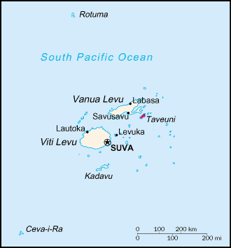 PNG map of Fiji from CIA World Factbook. Modified for Wikipedia by David Cannon.